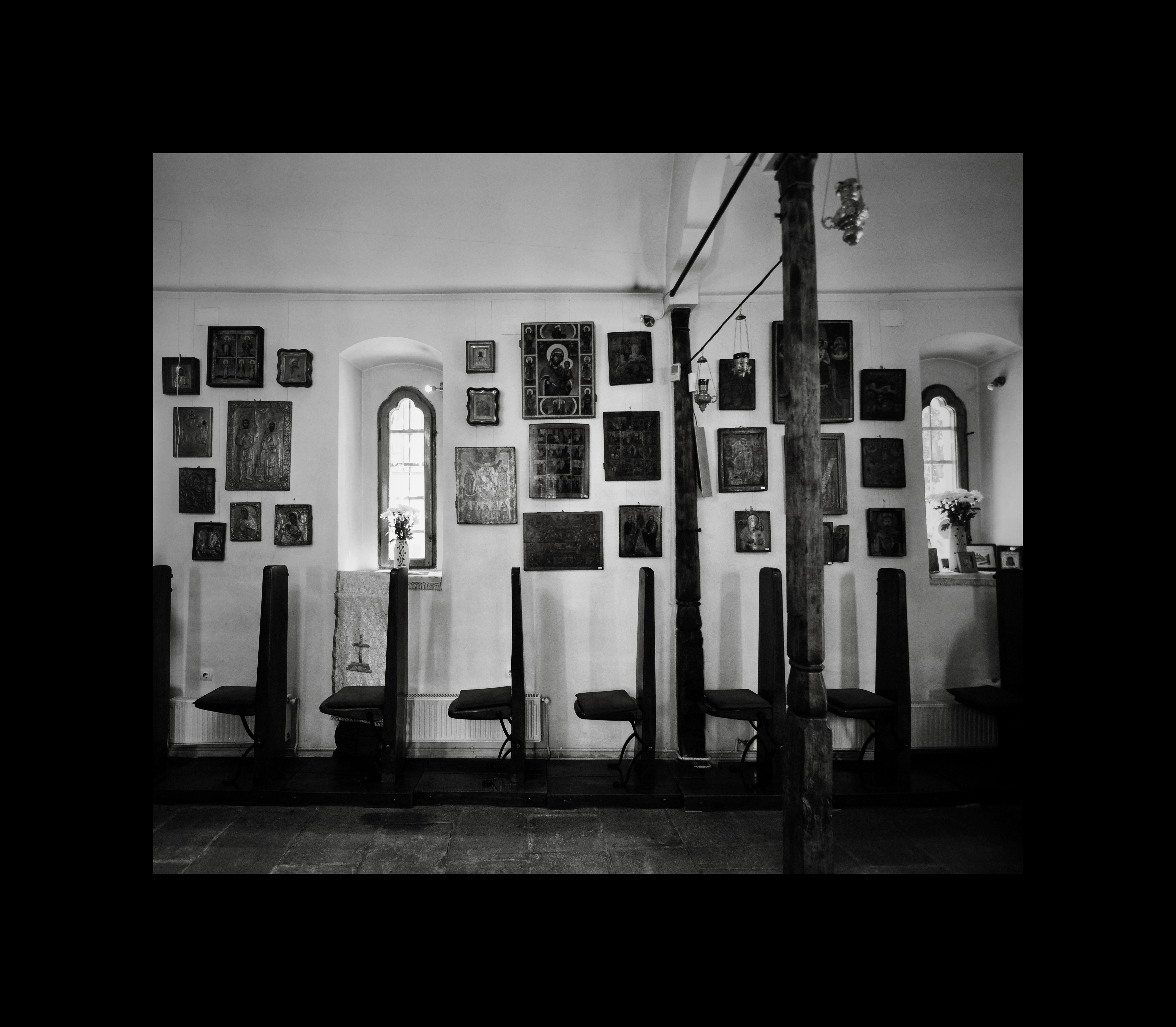 "Bucur the Shepherd" Church - "Saints Athanasos and Cyril", Bucharest, Romania